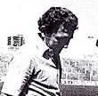 Vladislao Cap during his time as manager of Platense in 1980